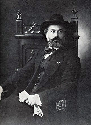 Portrait photograph of Italian film theoretician Ricciotto Canudo (1877 – 1923)